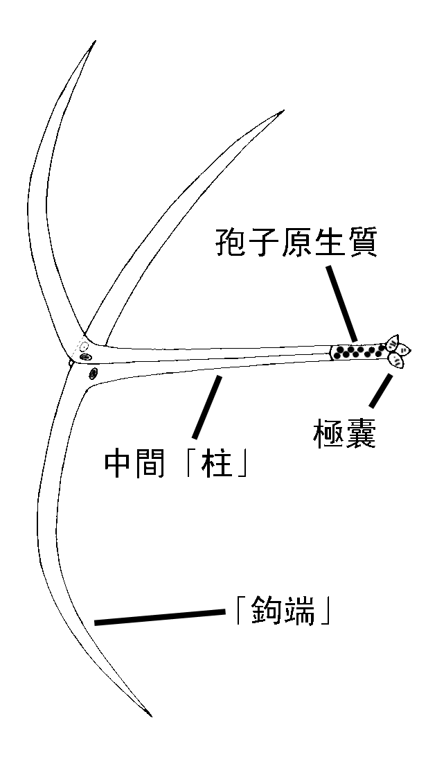 脑粘体虫在三角孢子虫期的结构示意图(繁体) convert from Image:Actinomyxon.png by Anilocra.